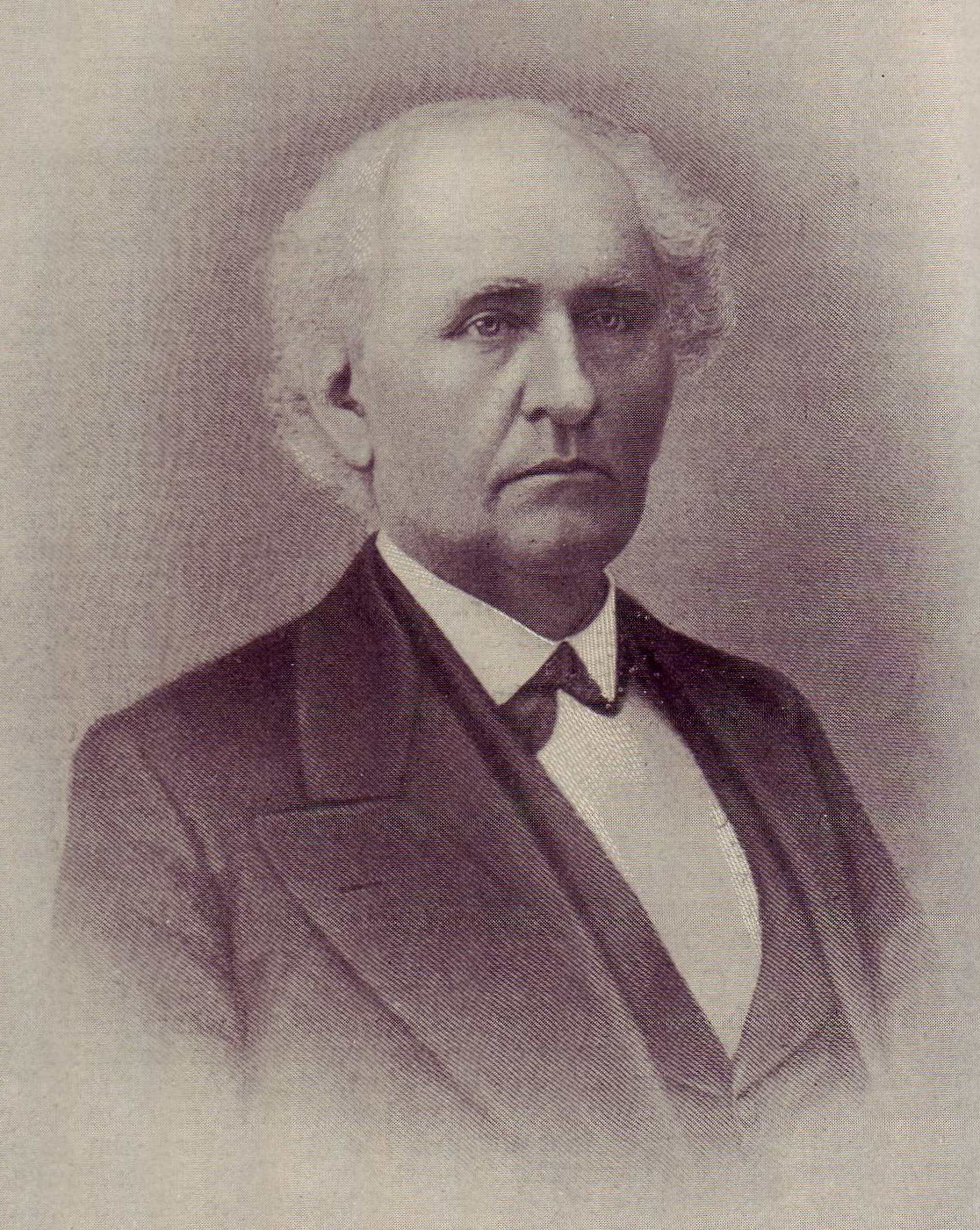 Portrait of John T. Grant from scanned from 1902 book in the public domain